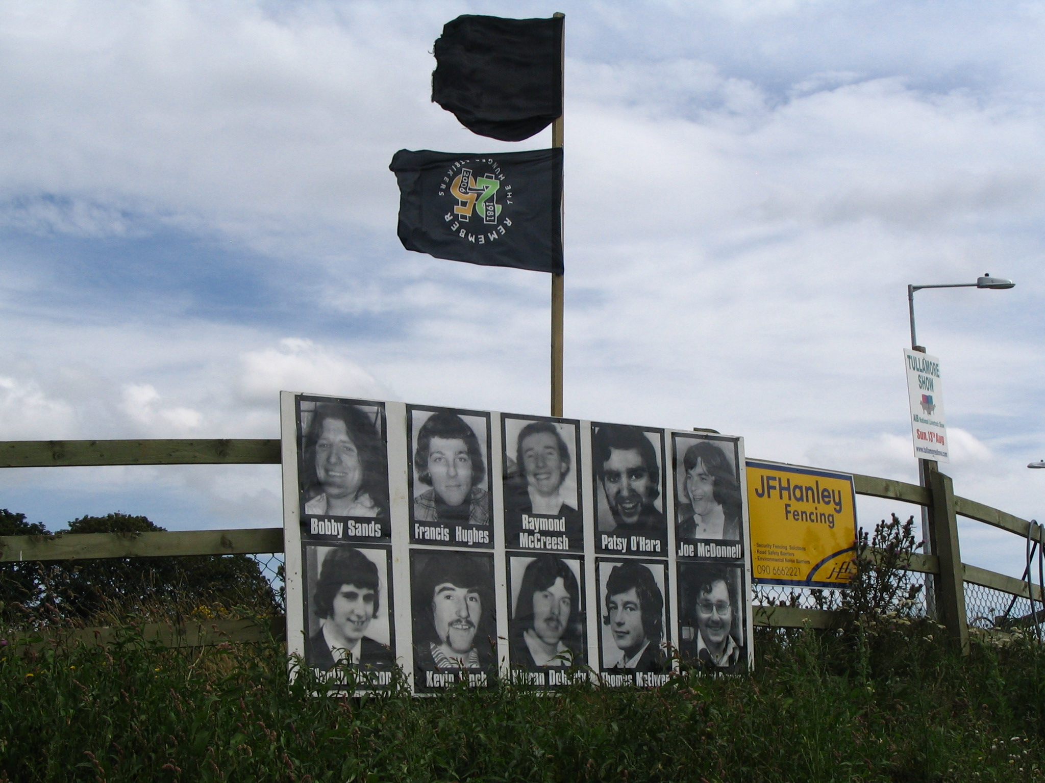 25th commemoration of 1981 Irish hunger strike in Donegal: Bobby Sands, (aged 27), Francis Hughes (aged 25) , Raymond McCreesh, (aged 24), Patsy O'Hara (aged 23), Joe McDonnell (aged 30), Martin Hurson (aged 29), Kevin Lynch (aged 25), Kieran Doherty (aged 25), Thomas McElvee (aged 23), Michael Devine (aged 27)